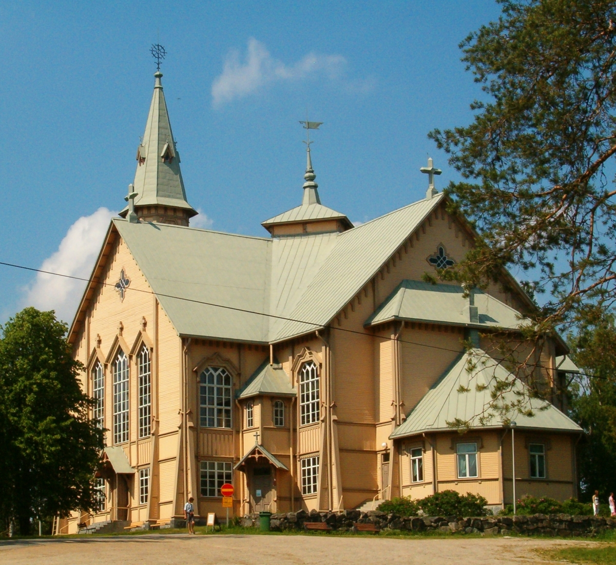 The wooden Church of Heinävesi, Finland. Designed by Josef Stenbäck and built in 1890-1891. View from southeast.